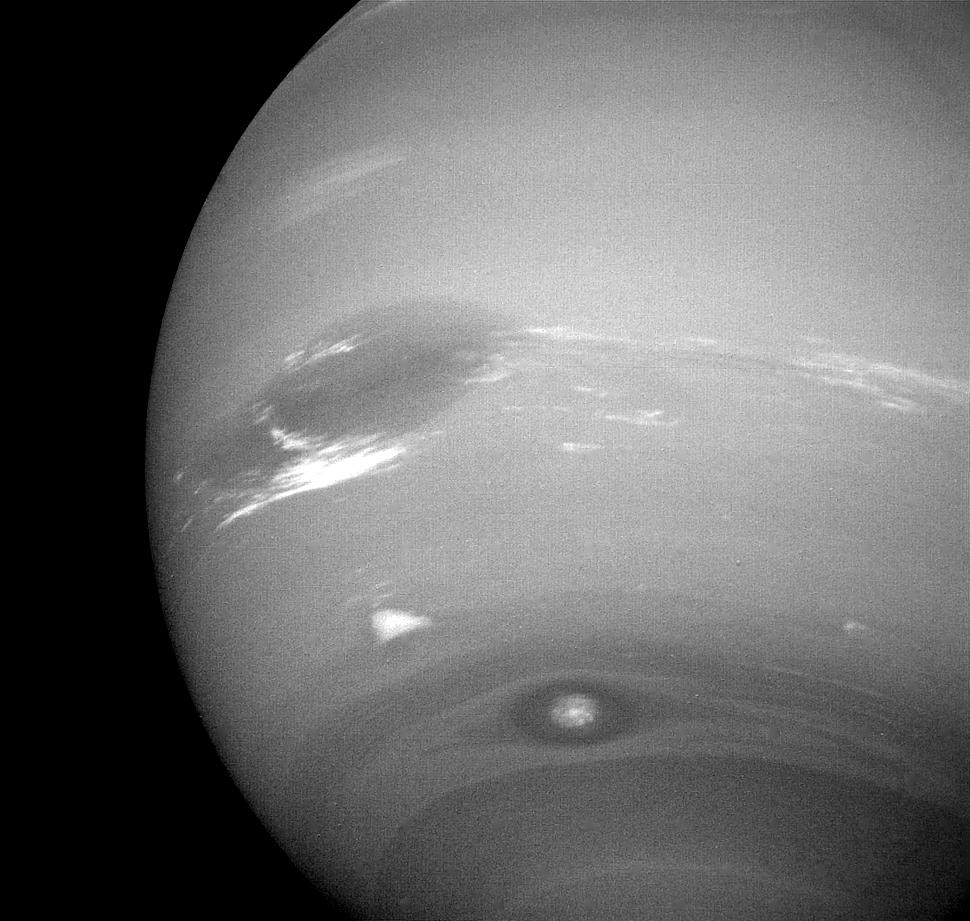 Great Dark Spot (top), Scooter (middle white cloud), and Small Dark Spot (bottom), image taken by Voyager 2